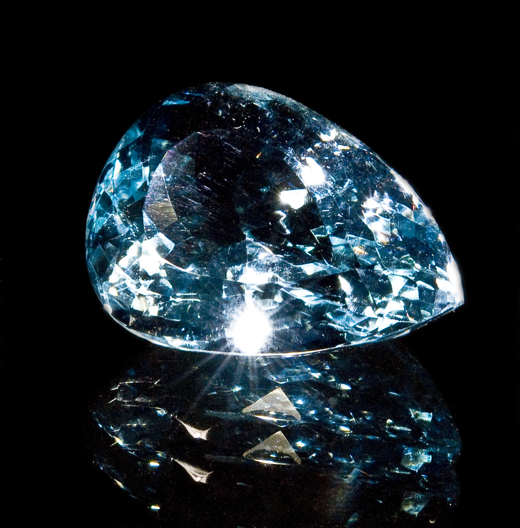 Topaz cut - Xanda Mine, Virgem da Lapa, Araçuaí Pegmatite District, Eastern Brazilian Pegmatite Province, Minas Gerais, Southeast Region, Brazil (3.2x2.2cm)